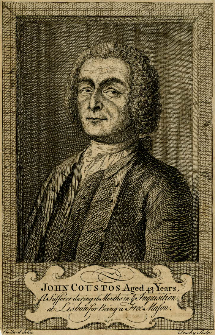 Portrait of John Coustos, half-length, in a rectangular architectural frame, slightly turned to the right, dressed in a dark frockcoat over his single-breasted waistcoat with a powdered bobwig with a queue on his head.